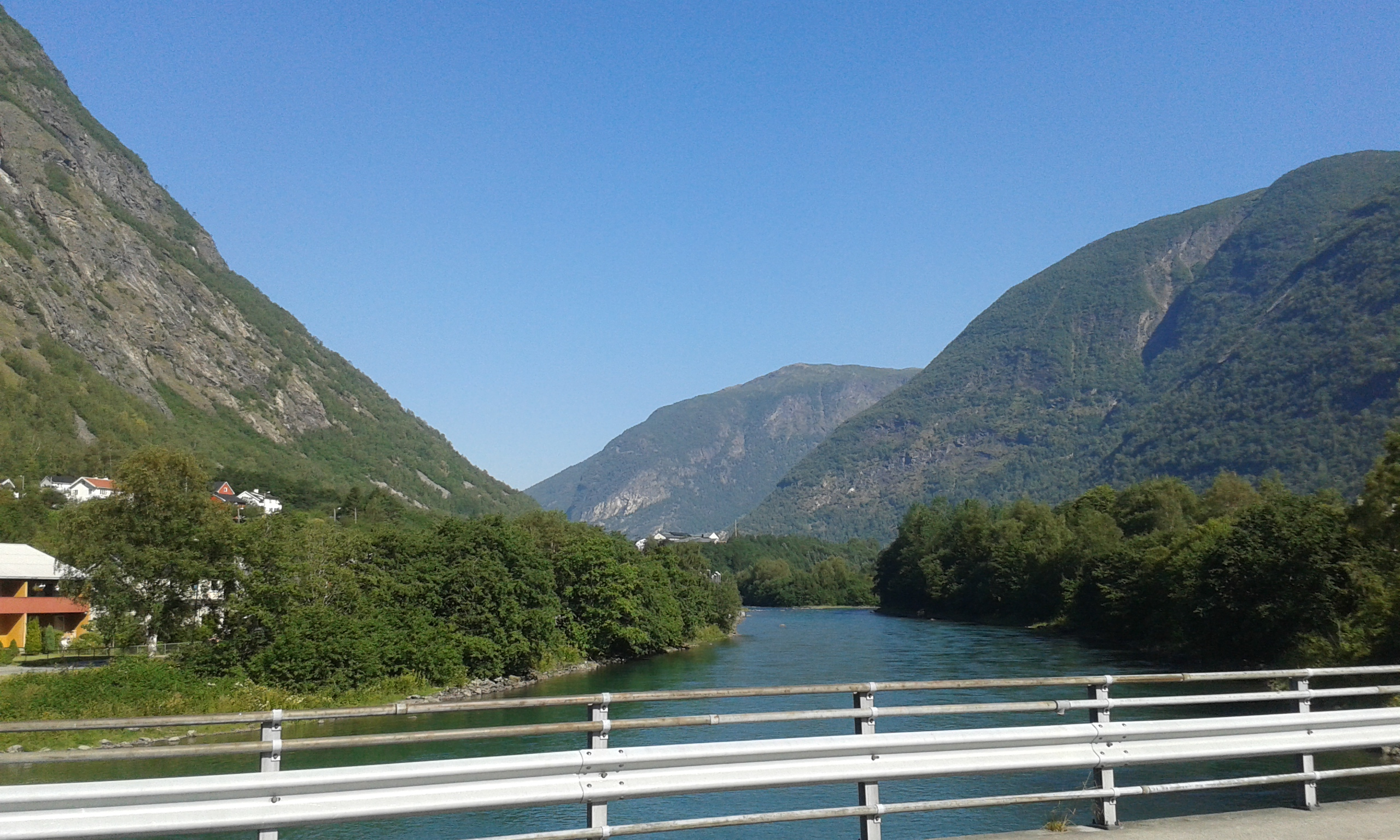 View upstream from the bridge at the mouth of Hæreidselvi river, Årdalstangen, Årdal municipality, Sogn og Fjordane county, Norway. The river drains lake Årdalsvatnet into Årdalsfjord and is just about 1.5 km long.